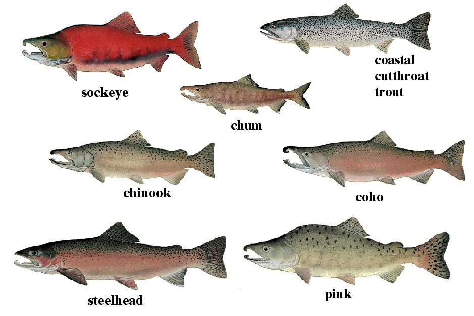 Illustration of various salmon